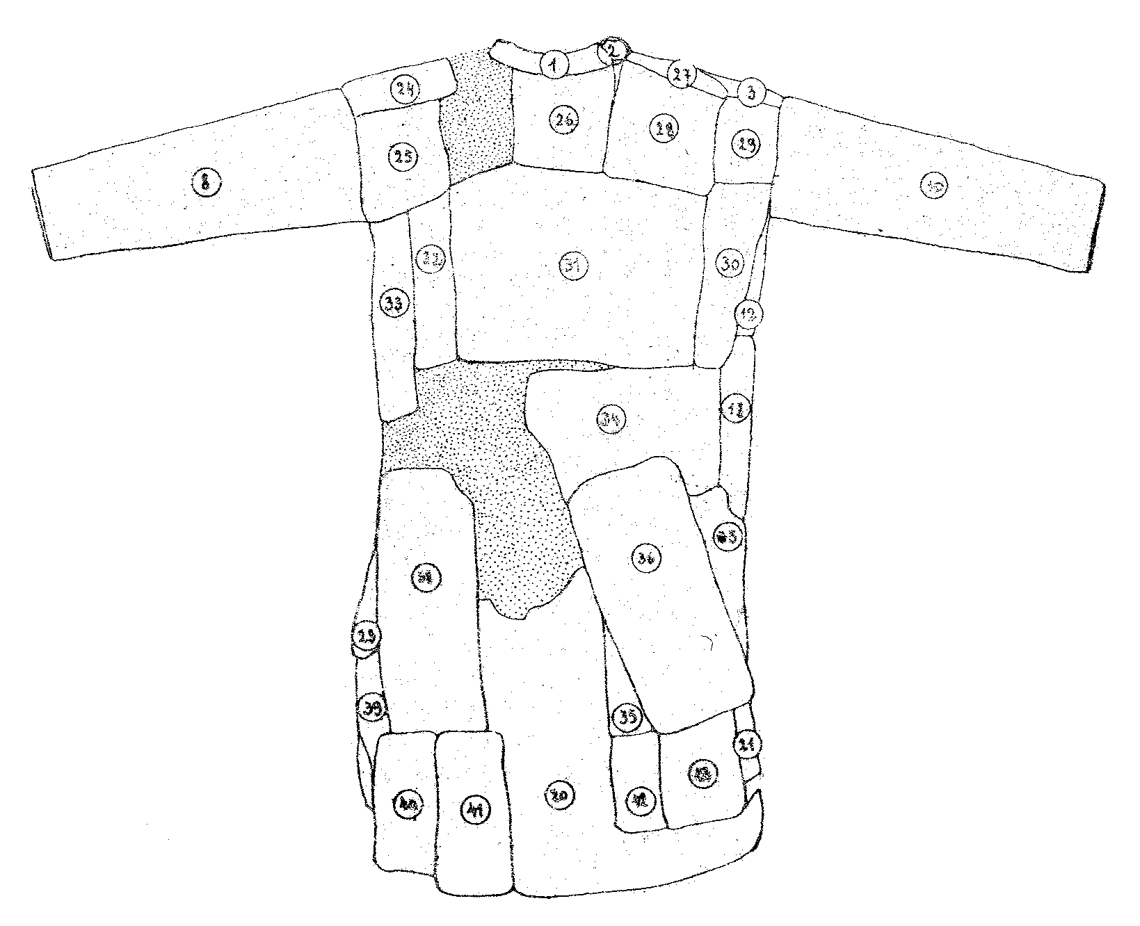 Scheme of the patchwork of the front side of the tunic of bog body Bernuthsfeld Man dating to 680 and 775 AD by Hans Hahne 1925. The tunic consists of 45 pieces of cloth from 20 different textiles in 9 different weaving patterns Found in 1907 in Hogehahn Bog near Tannenhausen (Landkreis Aurich), Lower Saxony, Germany. The hood has been removed on the drawing according to acutal scientific knowledge.